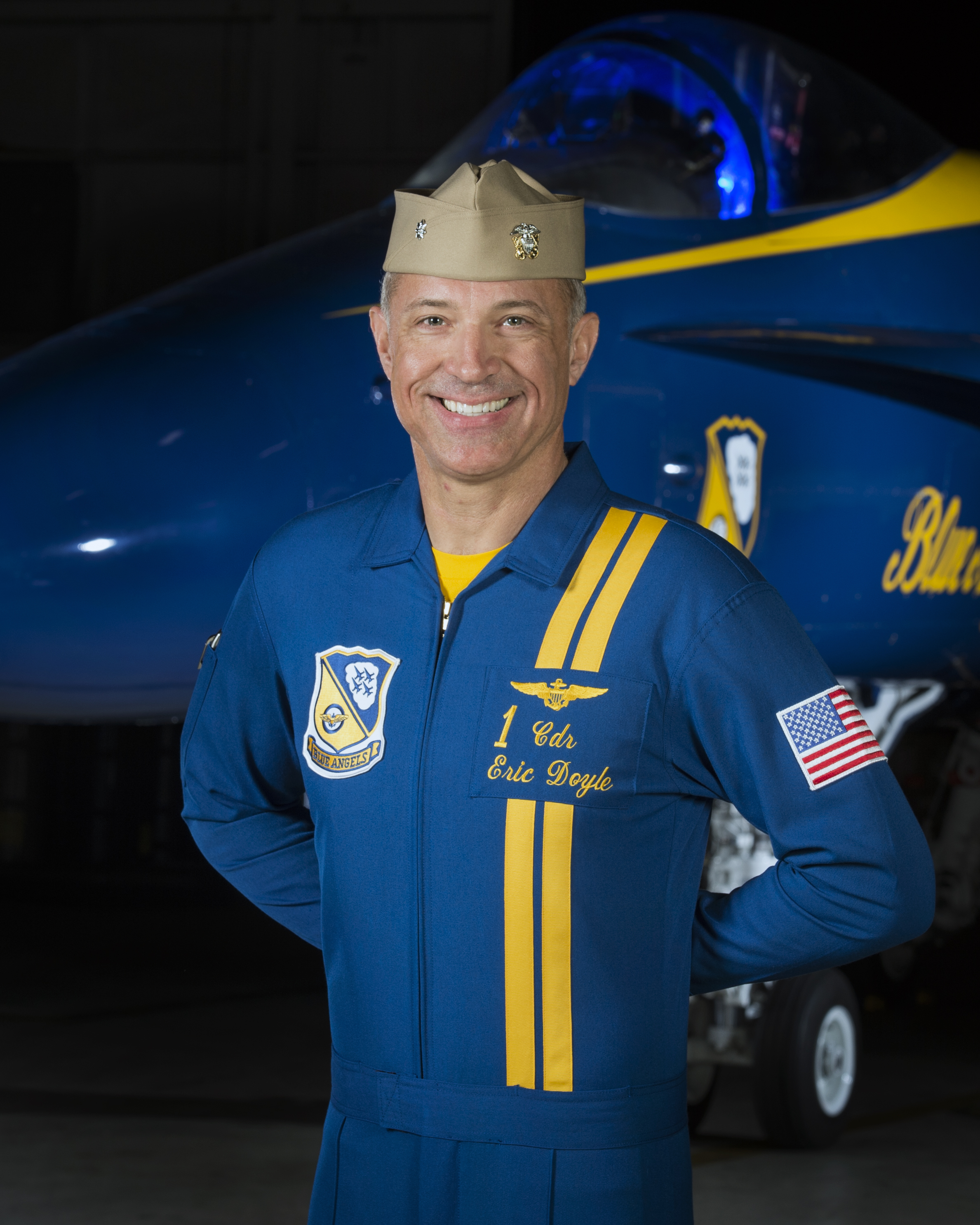 Commander Eric Doyle